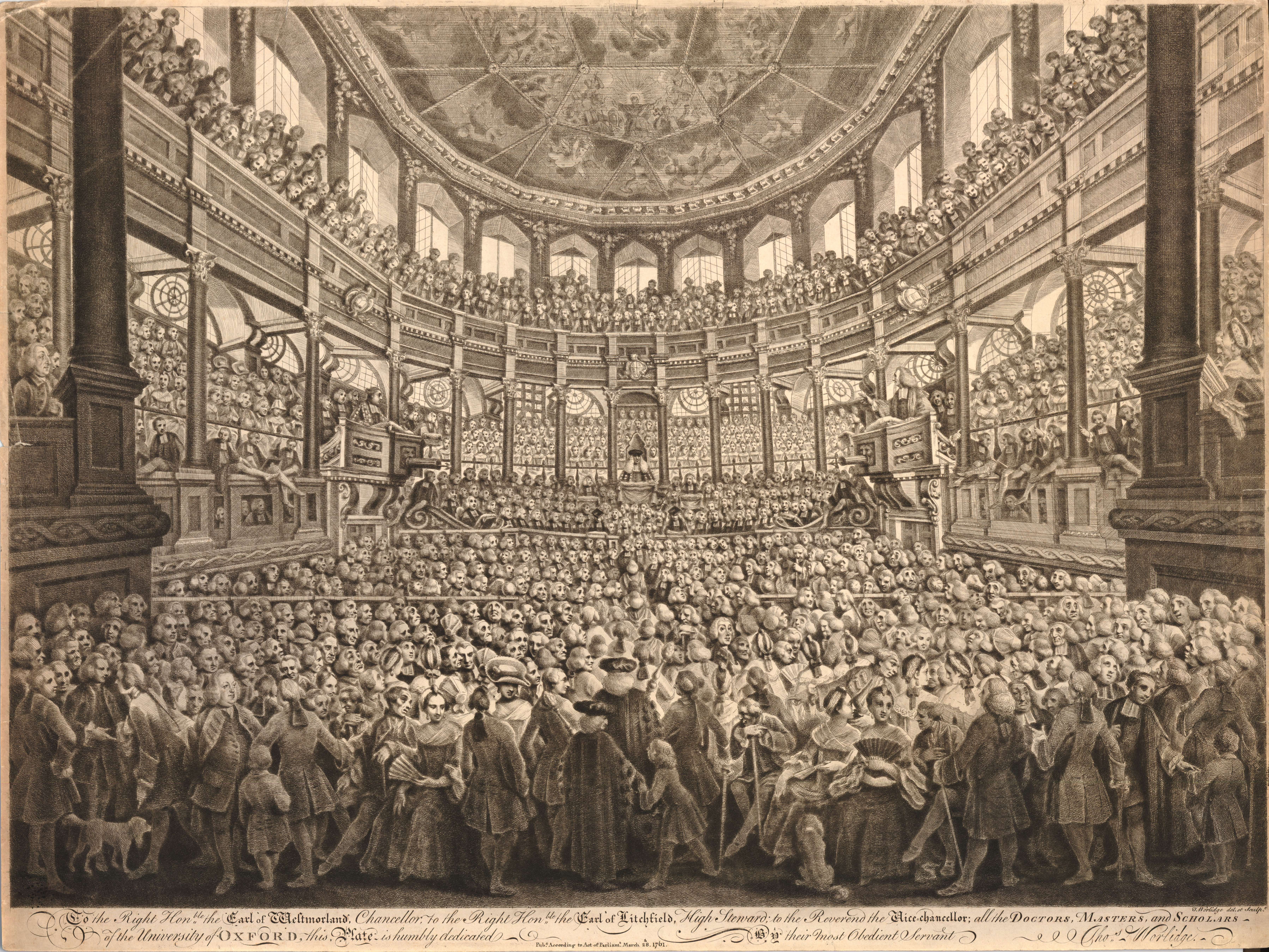 Ceremony at the Sheldonian Theatre, Oxford, England. According to the Harvard Art Museums site, this is the 1759 installation of the Chancellor of Oxford.